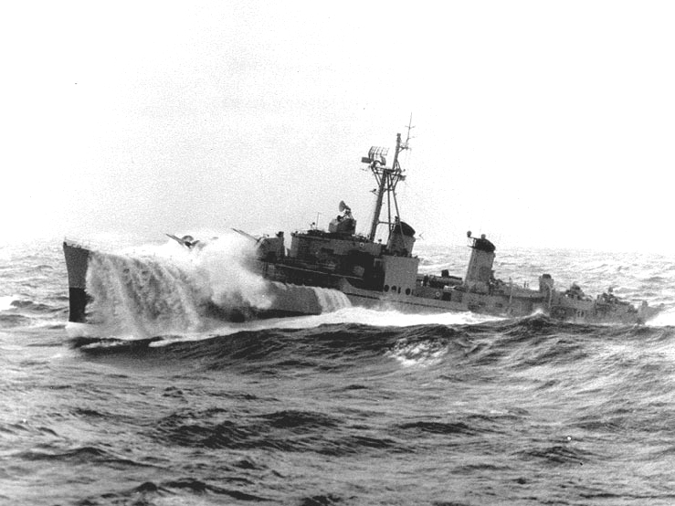 The U.S. Navy destroyer USS Waldron (DD-699) pitching her forefoot out of the water, while operating in heavy Atlantic seas, 30 September 1953.